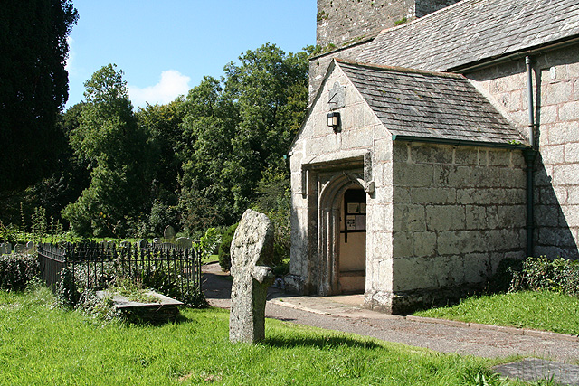 St Julitta'’s parish church, Lanteglos, near Camelford, Cornwall: south porch and Valley Truckle Cross. This wheel-headed wayside cross was found at Valley Truckle, in the parish, where its shaft had been used for binding tyres onto cart wheels at a blacksmith’'s shop. It is 1.5m high and may be early medieval [Source: Andrew Langdon, 1996, Stone Crosses in North Cornwall, Federation of Old Cornwall Societies, 43]